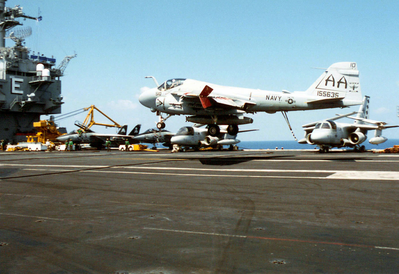 A U.S. Navy Grumman A-6E Intruder (BuNo 155635) from Attack Squadron 75 (VA-75) "Sunday Punchers" prepares to catch the hook as it lands onboard the aircraft carrier USS Enterprise (CVN-65) on 9 September 1996. The Enterprise was attached to the U.S. Sixth Fleet and conducted flight operations in the Adriatic Sea in support of "Operation Joint Endeavor". Operation Joint Endeavor was a peacekeeping effort by a multinational Implementation Force (IFOR), comprised of NATO and non-NATO military forces, deployed to Bosnia in support of the Dayton Peace Accords. VA-75 was assigned to Carrier Air Wing 17 (CVW-17) aboard the Enterprise for a deployment to the Mediterranean Sea from 28 June to 20 December 1996. VA-75 was disestablished following this deployment on 21 March 1997.